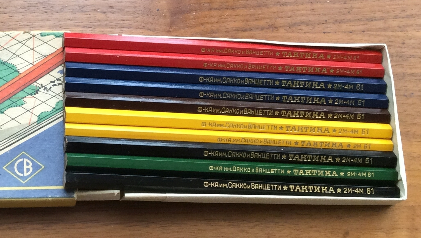 "Taktika" ("Tactics"), Set of colored wooden pencils for military purposes. Moscow pencil factory named after Sacco and Vanzetti, Soviet Union, 1961.